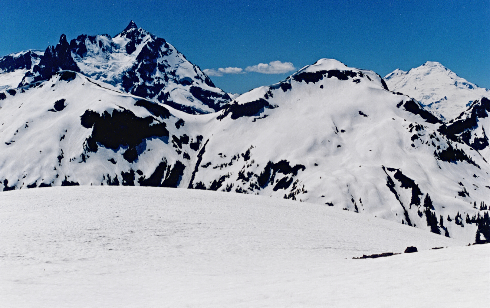 Hannegan Peak view of Mount Shuksan and Mount Baker and Nooksack Ridge. See annotations. North Cascades of Washington state.